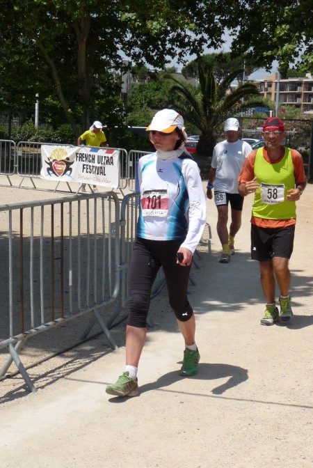 Nicoletta Mizera